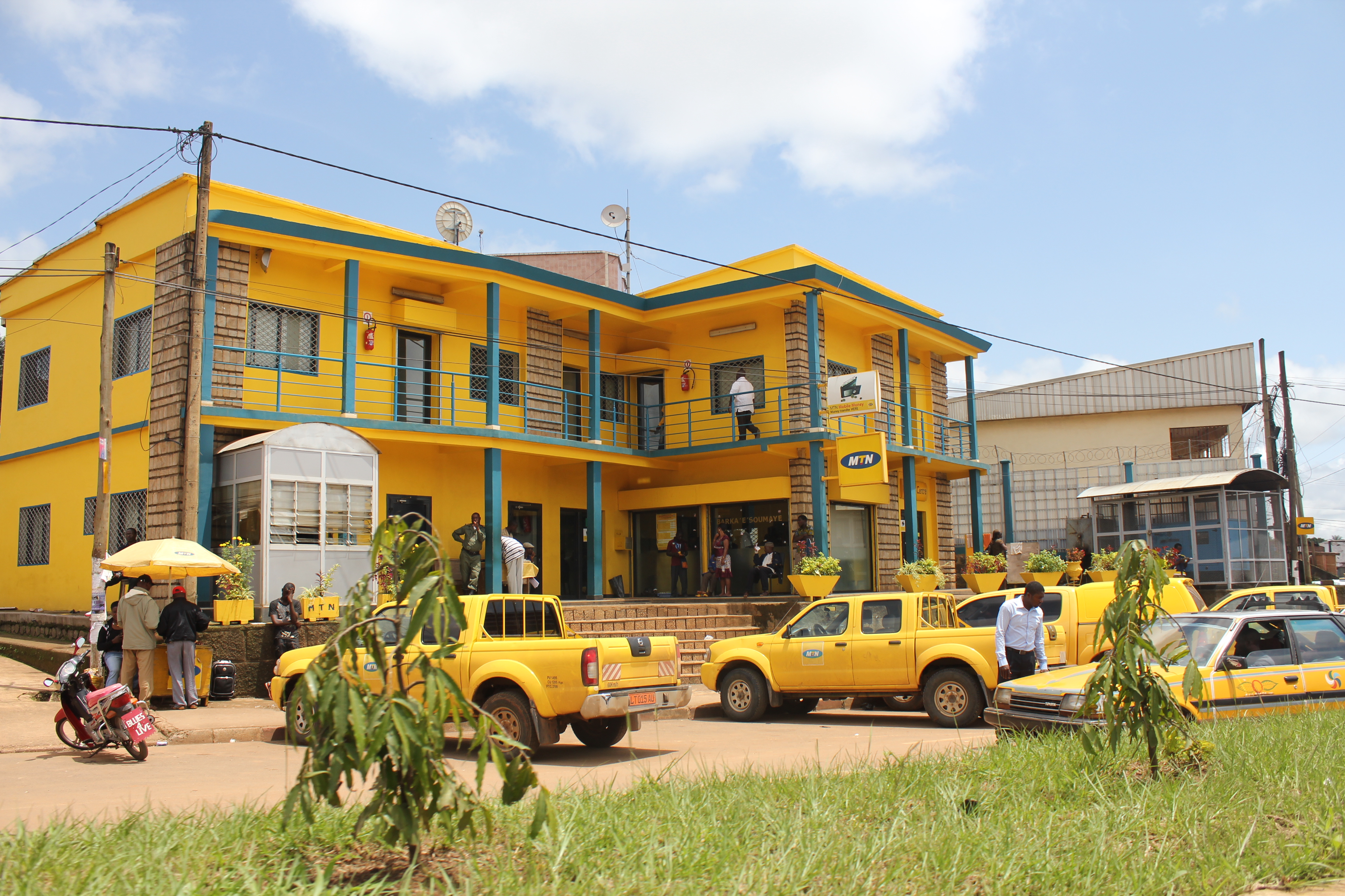 MTN Office Bamenda